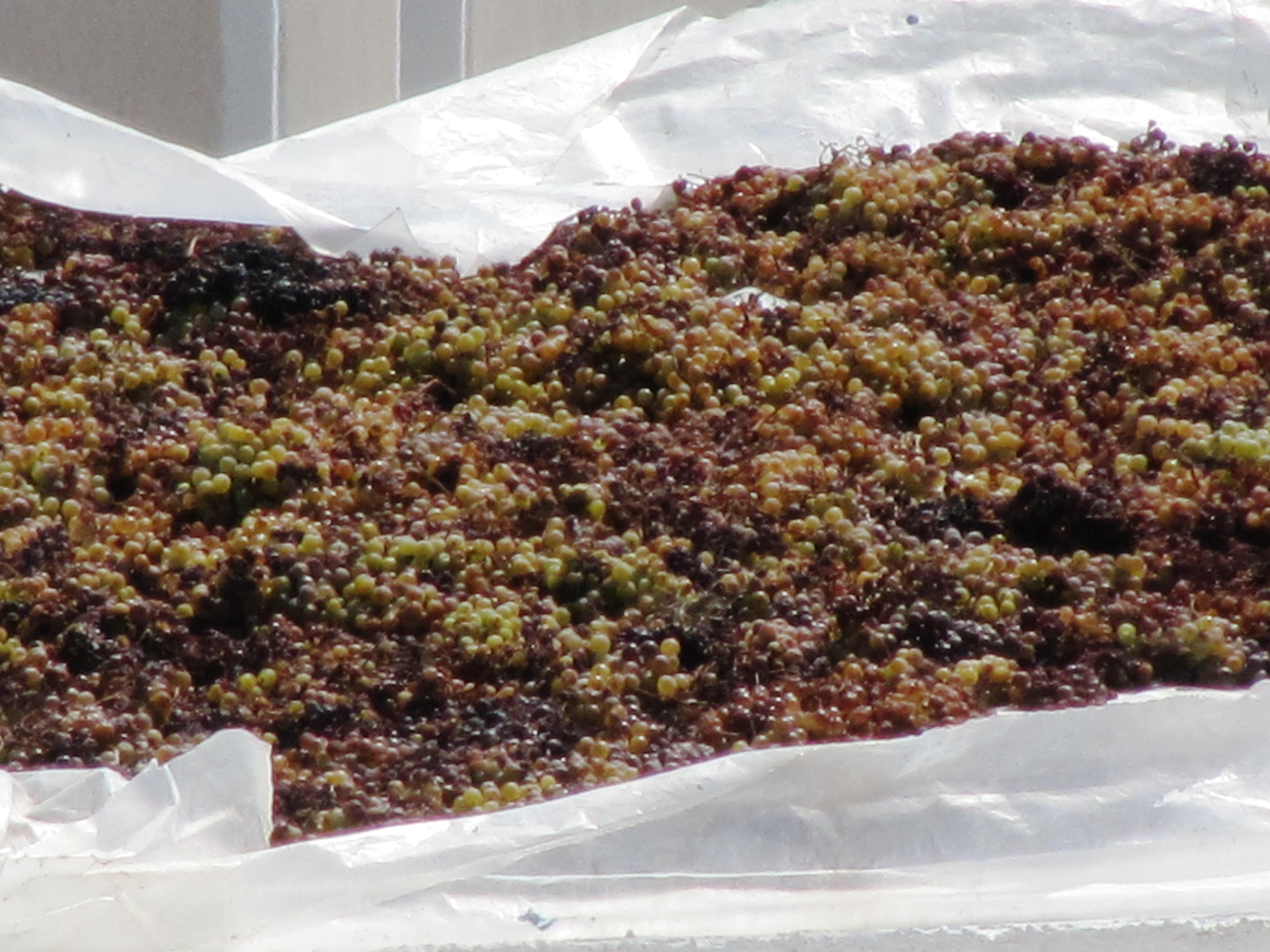 Grapes drying out in the sun on the Greek island of Santorini. This method is used both for producing raisins and for producing sweet wines.